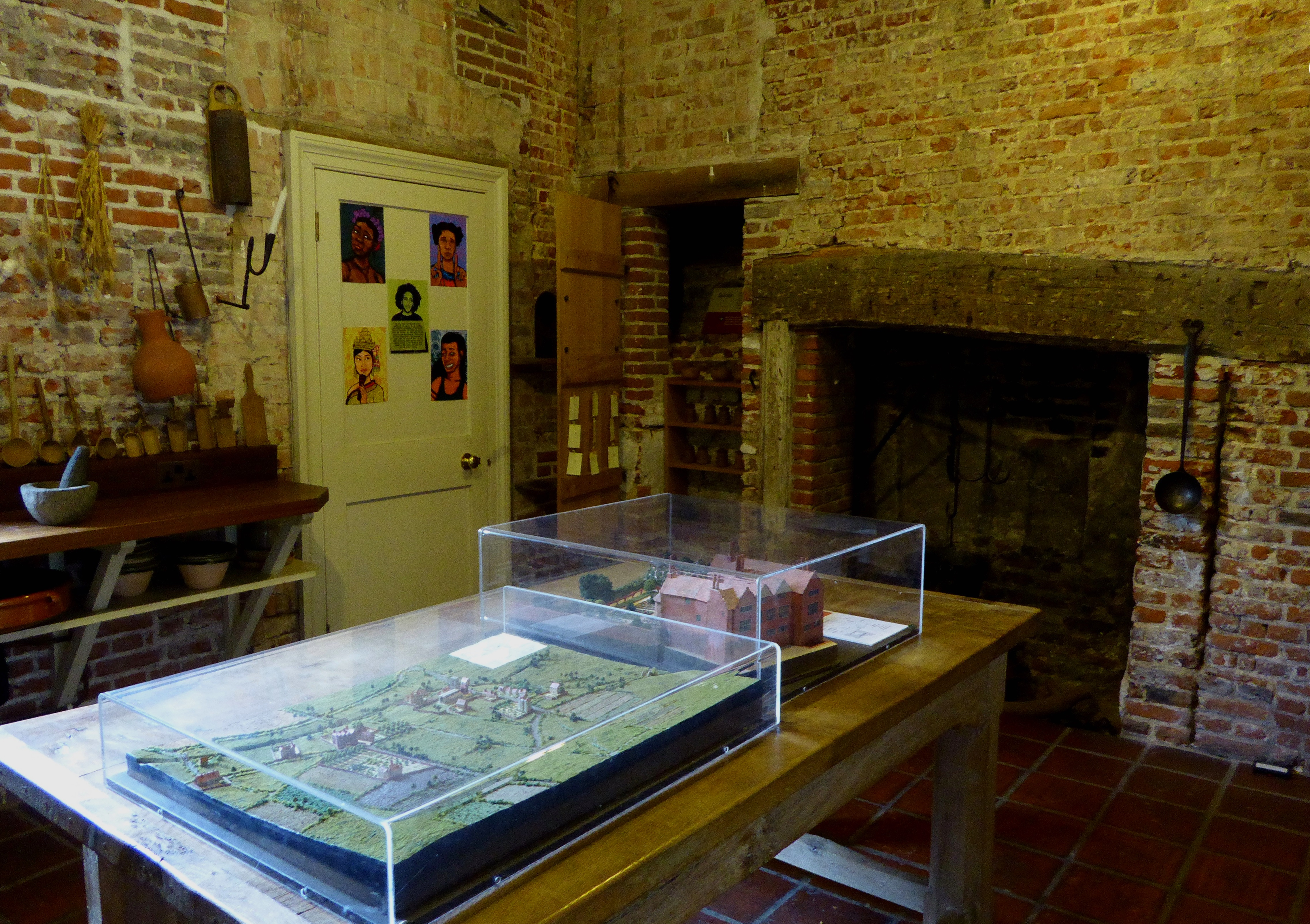 The Tudor kitchen at Sutton House in Hackney Central, London Borough of Hackney.